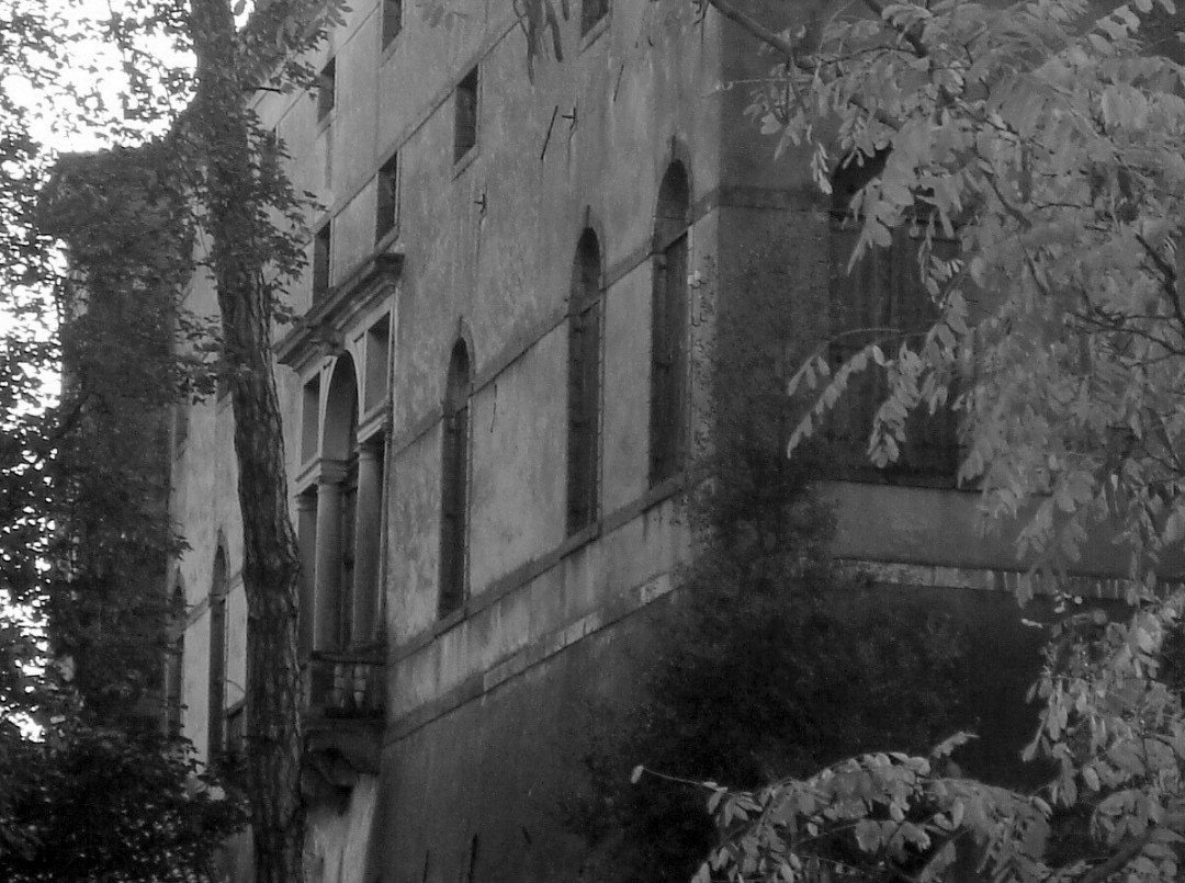 Villa di Villa (Cordignano, TV): Villa Mocenigo, facciata posteriore con serliana centrale.